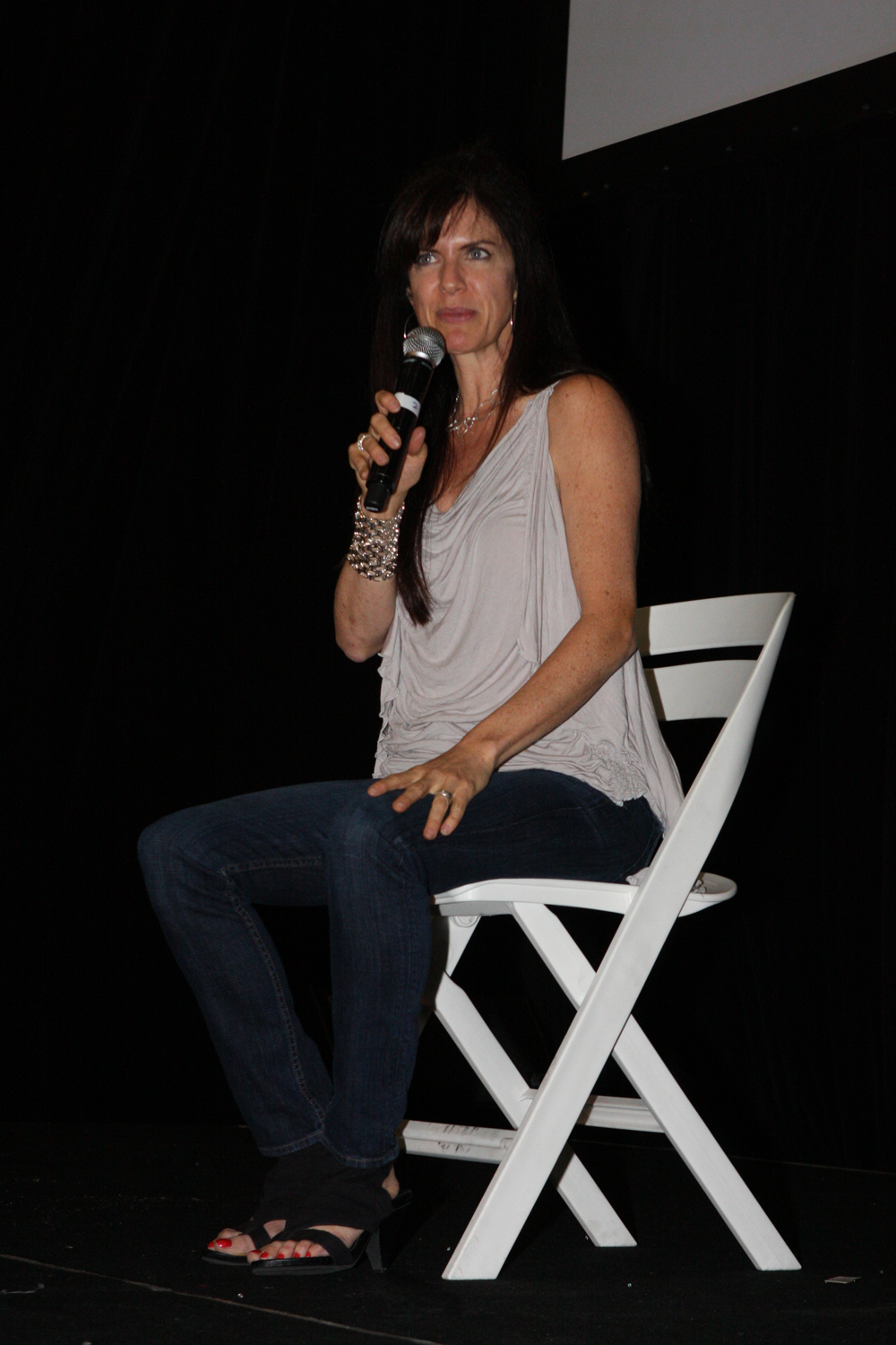 Jennifer Hale, Mass Effect, Star Wars